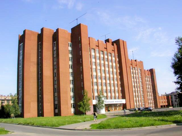 politech